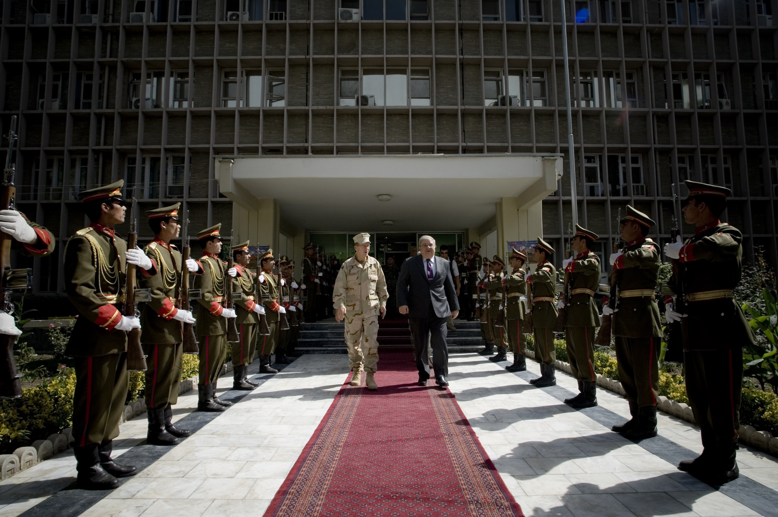 Afghanistan Minister of Defense Gen. Abdul Rahim Wardak escorts U.S. Navy Adm. Mike Mullen, chairman of the Joint Chiefs of Staff, from the building following their meeting in Kabul, Afghanistan, Oct. 7, 2007. Dept. of Defense photo by Navy Petty Officer 1st Class Chad J. McNeeley